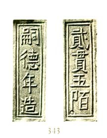 An image extracted from Albert Schroeder's Annam, Études numismatiques of a silver Vietnamese ingot.